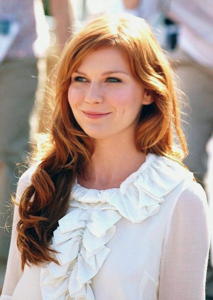 Kirsten Dunst at the premiere of Marie Antionette at the Cannes Film Festival.